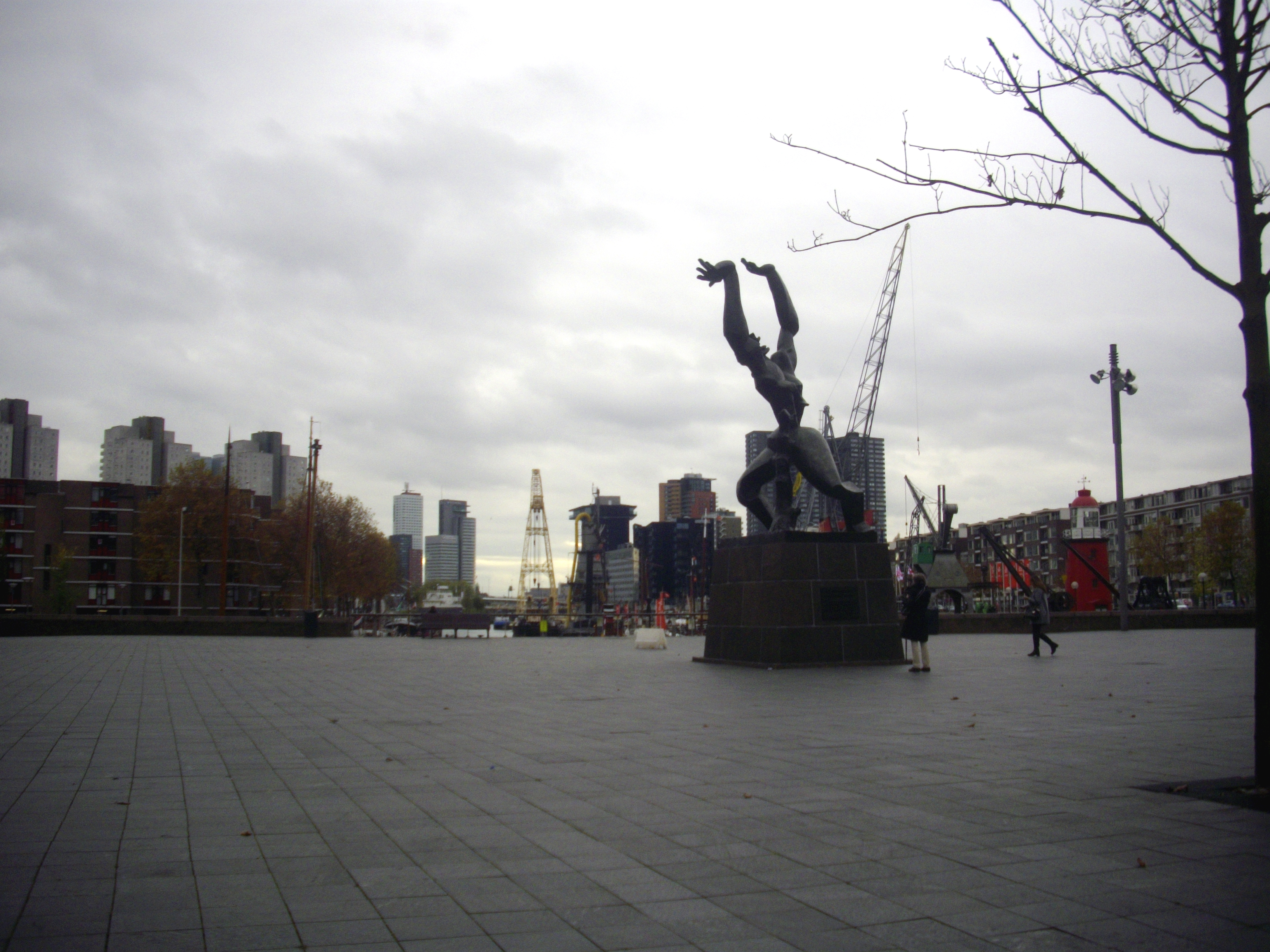 1940plein, Rotterdam with Ossip Zadkine's sculpture "De Verwoeste Stad"